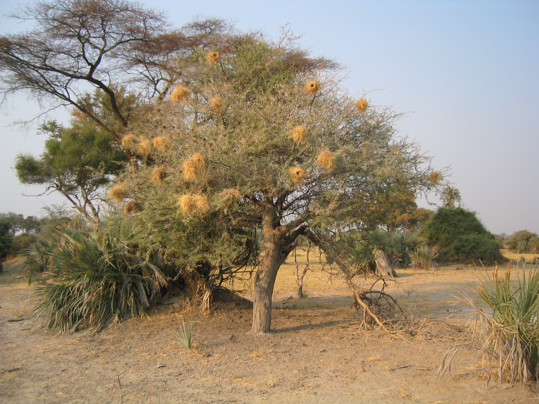 White-browed Sparrow-Weaver nests in an acacia tree in Okovango Delta, Botswana.